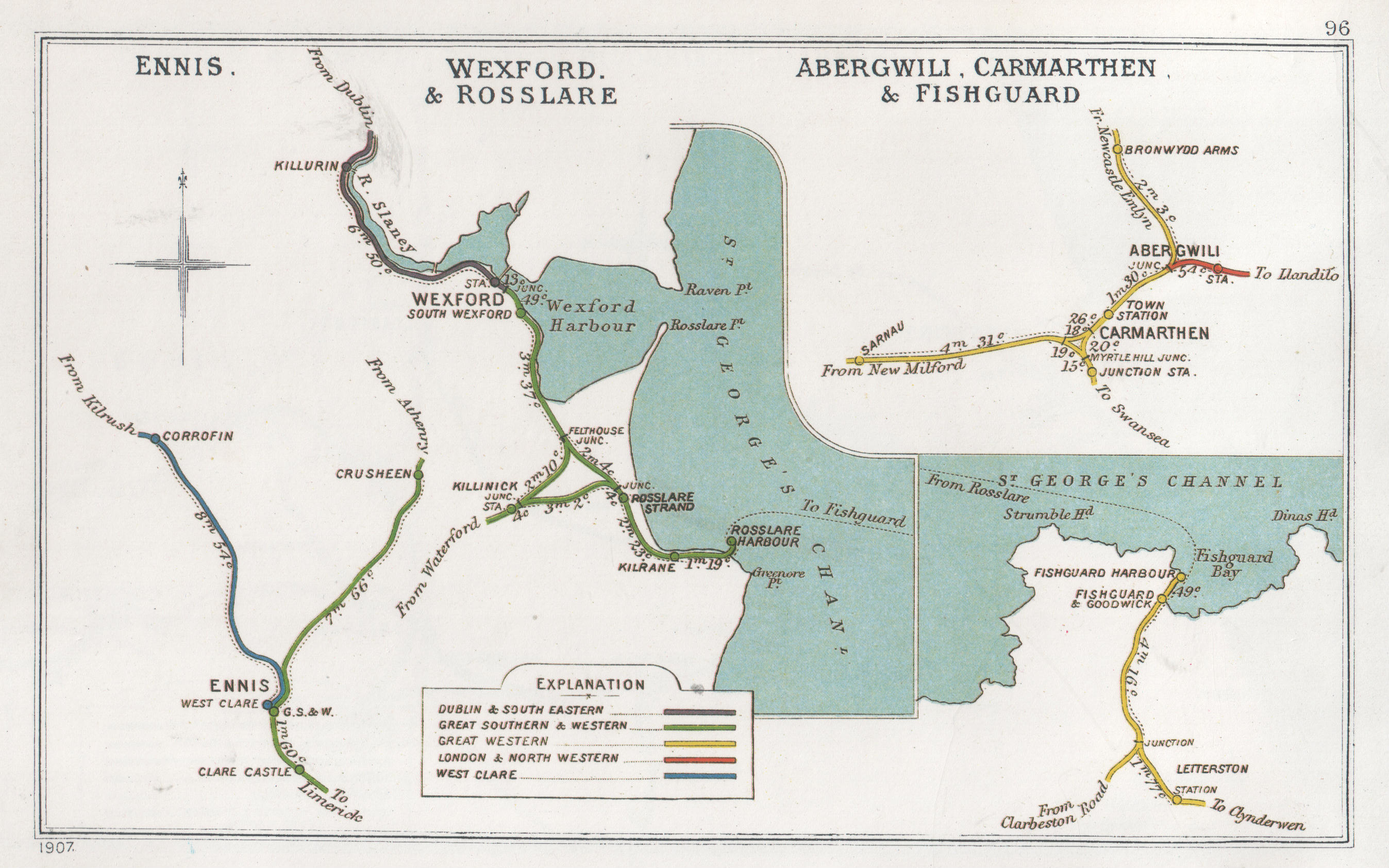 Pre Grouping railway junction around Ennis, Wexford & Rosslare, Abergwili, Carmarthen & Fishguard